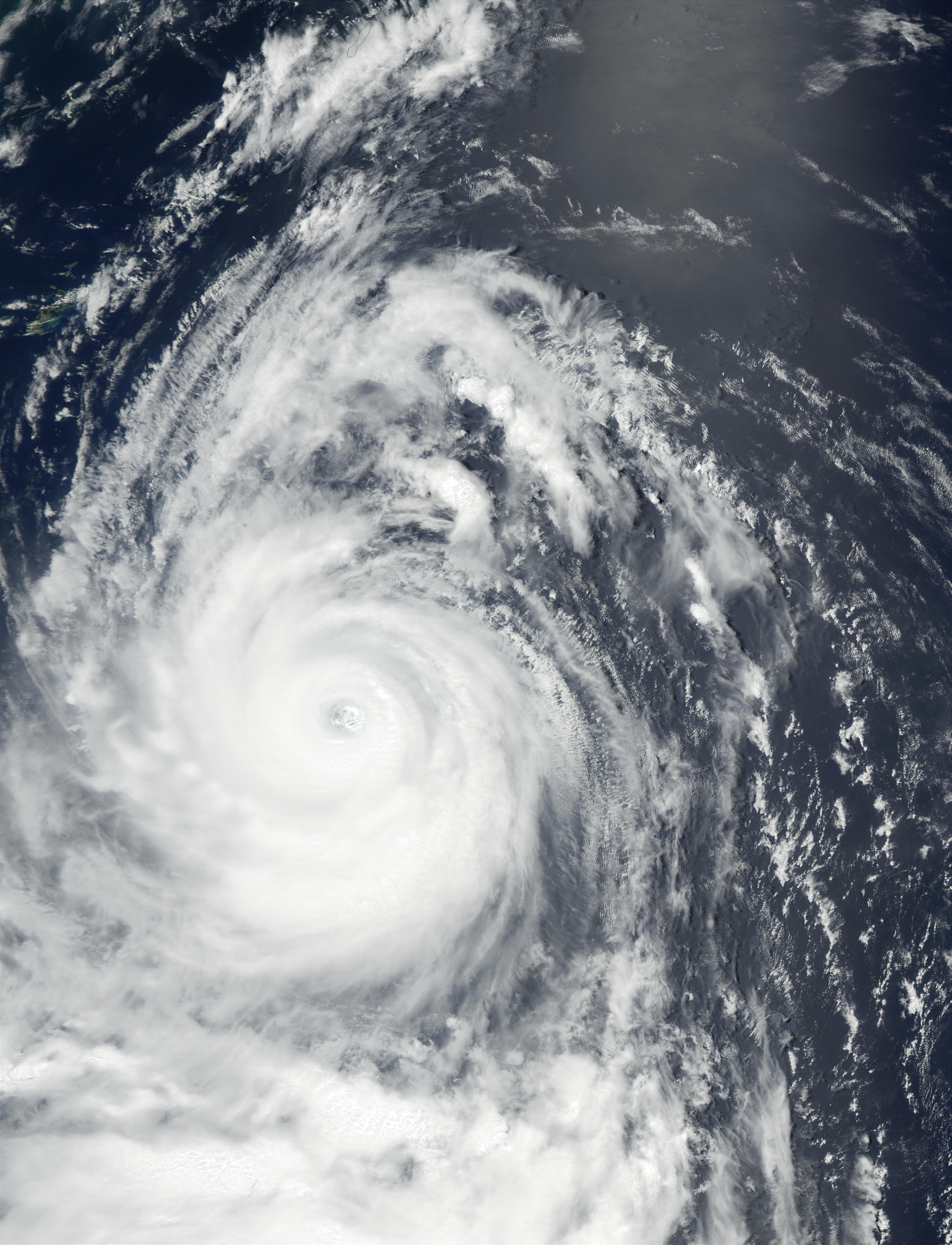 Super Typhoon Chataan reached Category 4 hurricane status on July 7 and 8, about the time this image from the Moderate Resolution Imaging Spectroradiometer (MODIS) was captured on July 8, 2002. Chataan was located in the Pacific Ocean off the south of Japan, and the outlines of Ryukyu Islands, southwest of Japan, are visible at the top left of the image. The southernmost of those islands is Okinawa. According to news reports, tens of thousands of people were asked to evacuate low-lying coastal areas as the storm skirted the east coast of the Japan, bringing high winds and heavy rains that produced floods and mudslides in the region, and disrupted transportation services. Typhoon Chataan was reportedly responsible for the deaths of at least 80 people in Micronesia, the Philippines, and Japan. Even as Chataan passed up the coast of Japan and moved northeast, another storm began brewing to the south. Now the country is bracing for the expected arrival of Typhoon Halong from the southeast and Tropical Storm Nakri from the south.